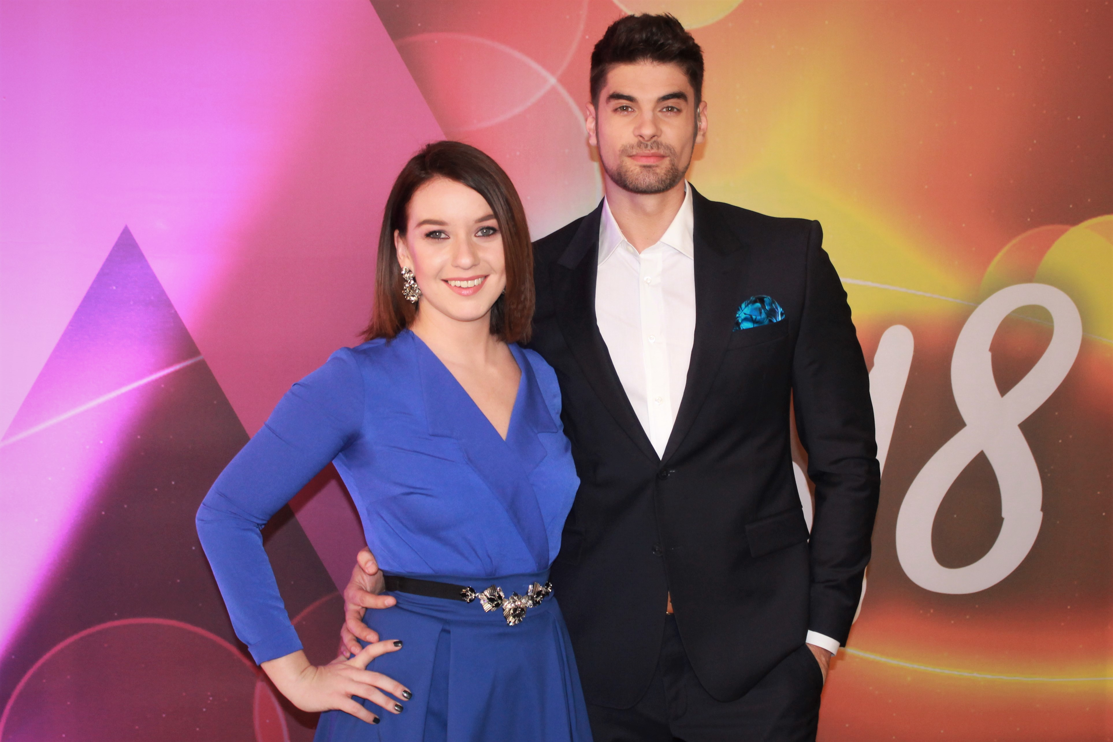 The hosts of A Dal 2018: Kriszta Rátonyi & Freddie